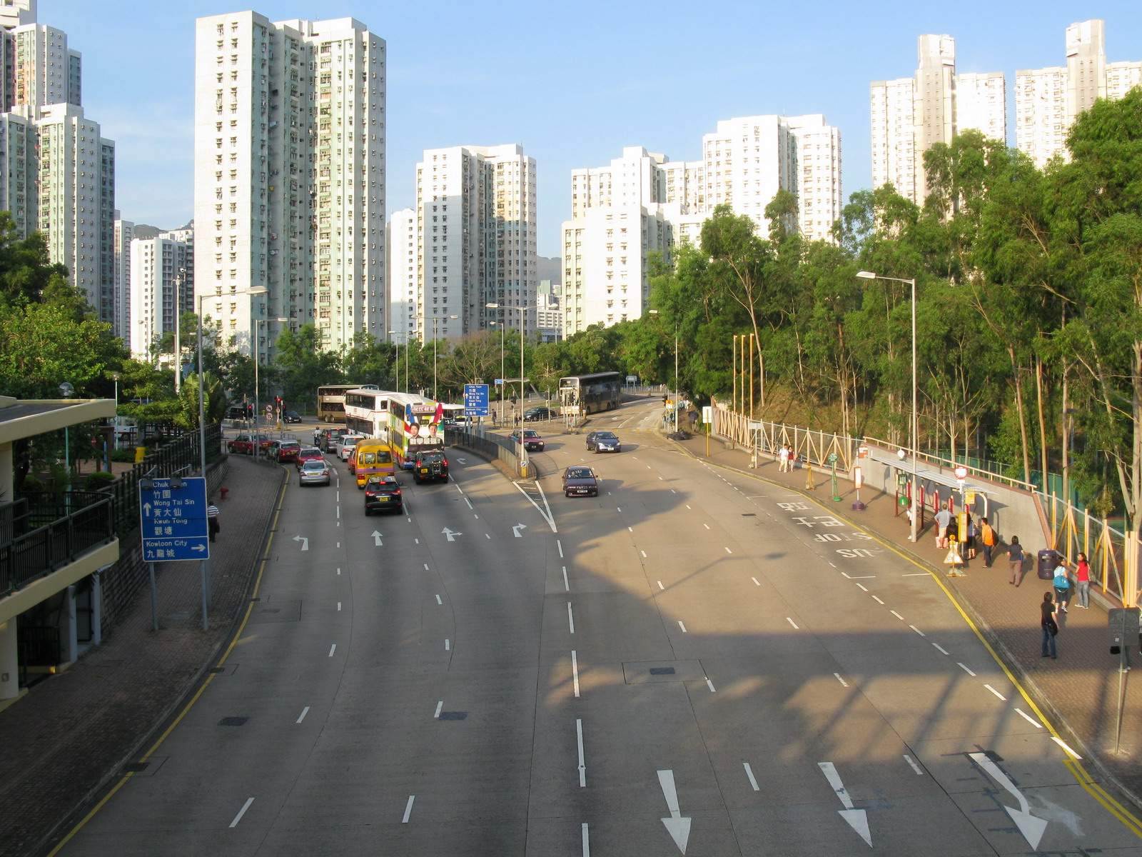 Junction Road near Renfrew Road